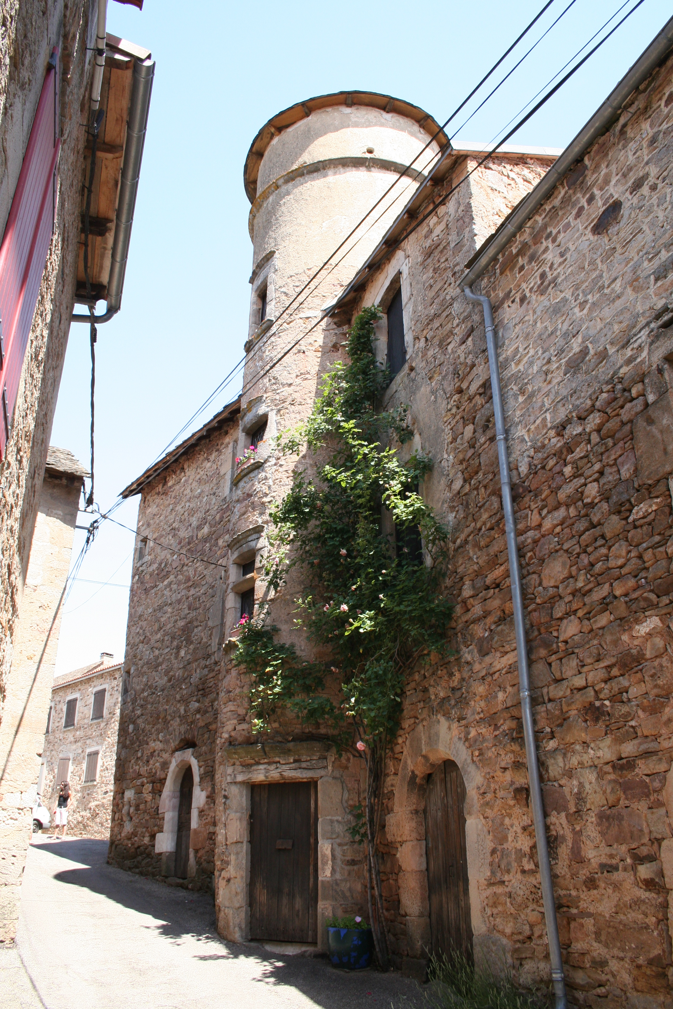 Picture of medieval tower, located in Le Viala du Tarn, Aveyron, France. Picture taken by T. Williams, image used with permission, Summer 2006.